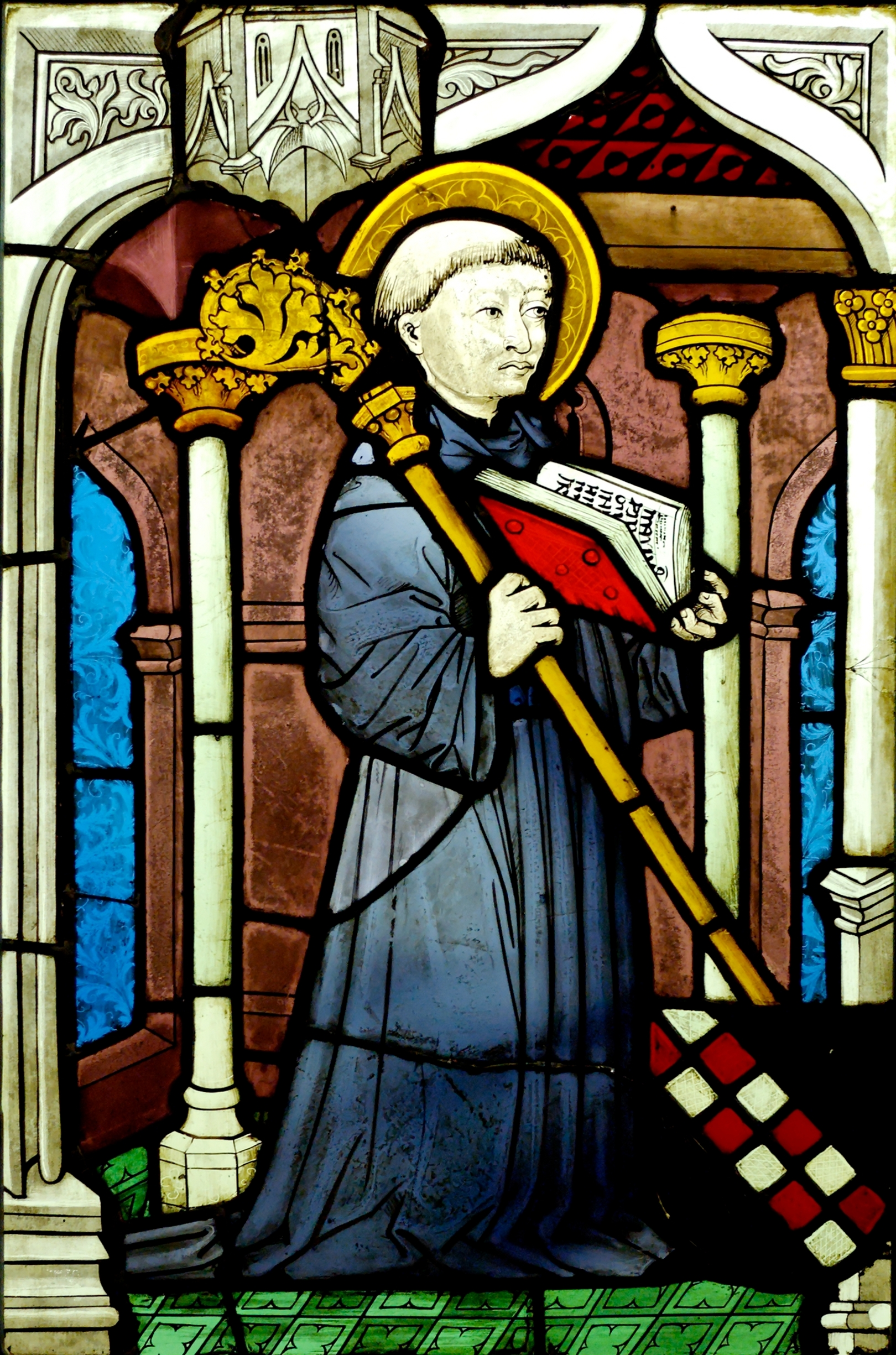 Stained glass representing St. Bernard of Clairvaux. Upper Rhine, ca. 1450.